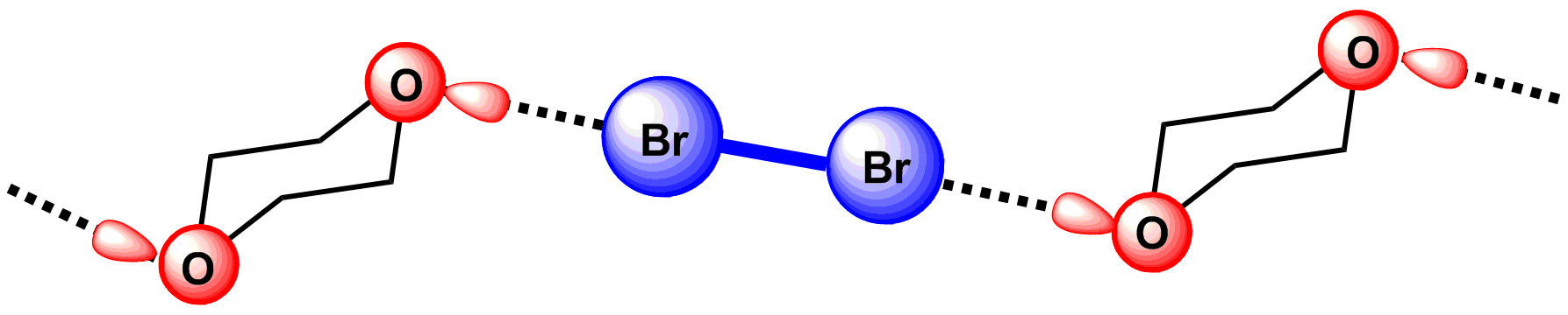 Complex of Br2 and dioxane